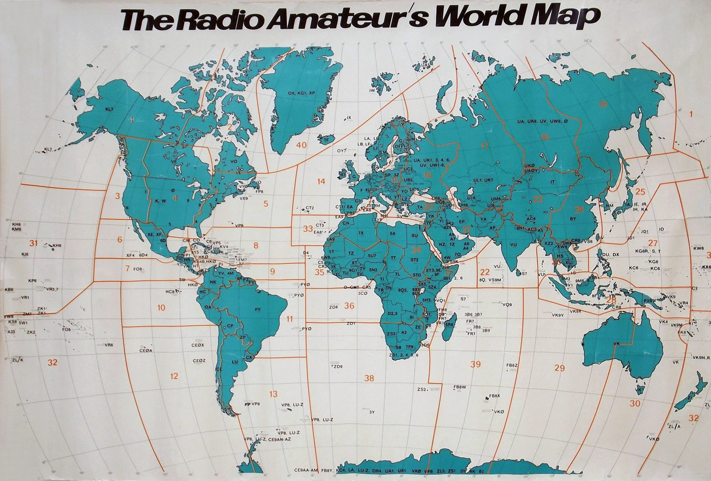 amateur radio world map with WAZ/CQ zones